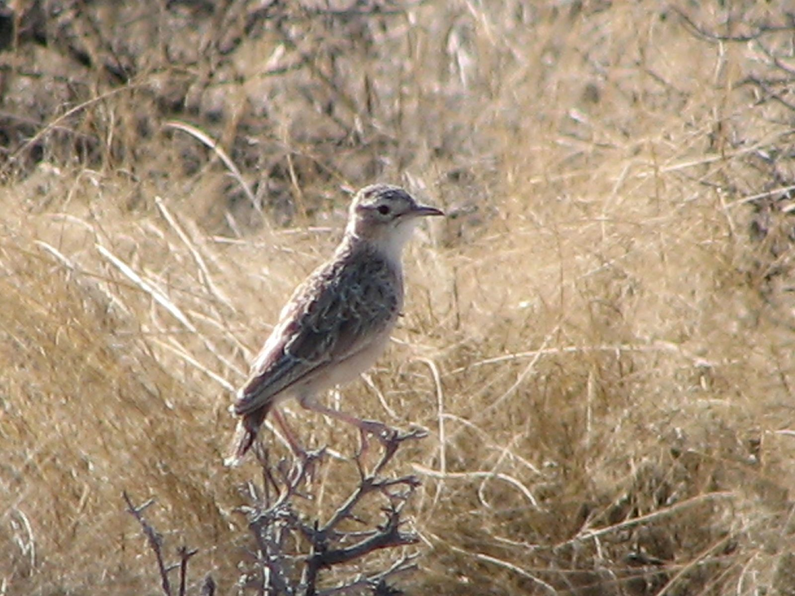 A Spike-heeled lark in Etosha. The specific race is confined to northern Namibia where it occurs on white calcrete soils. It is paler grey than other races, though the feather centers are dark.